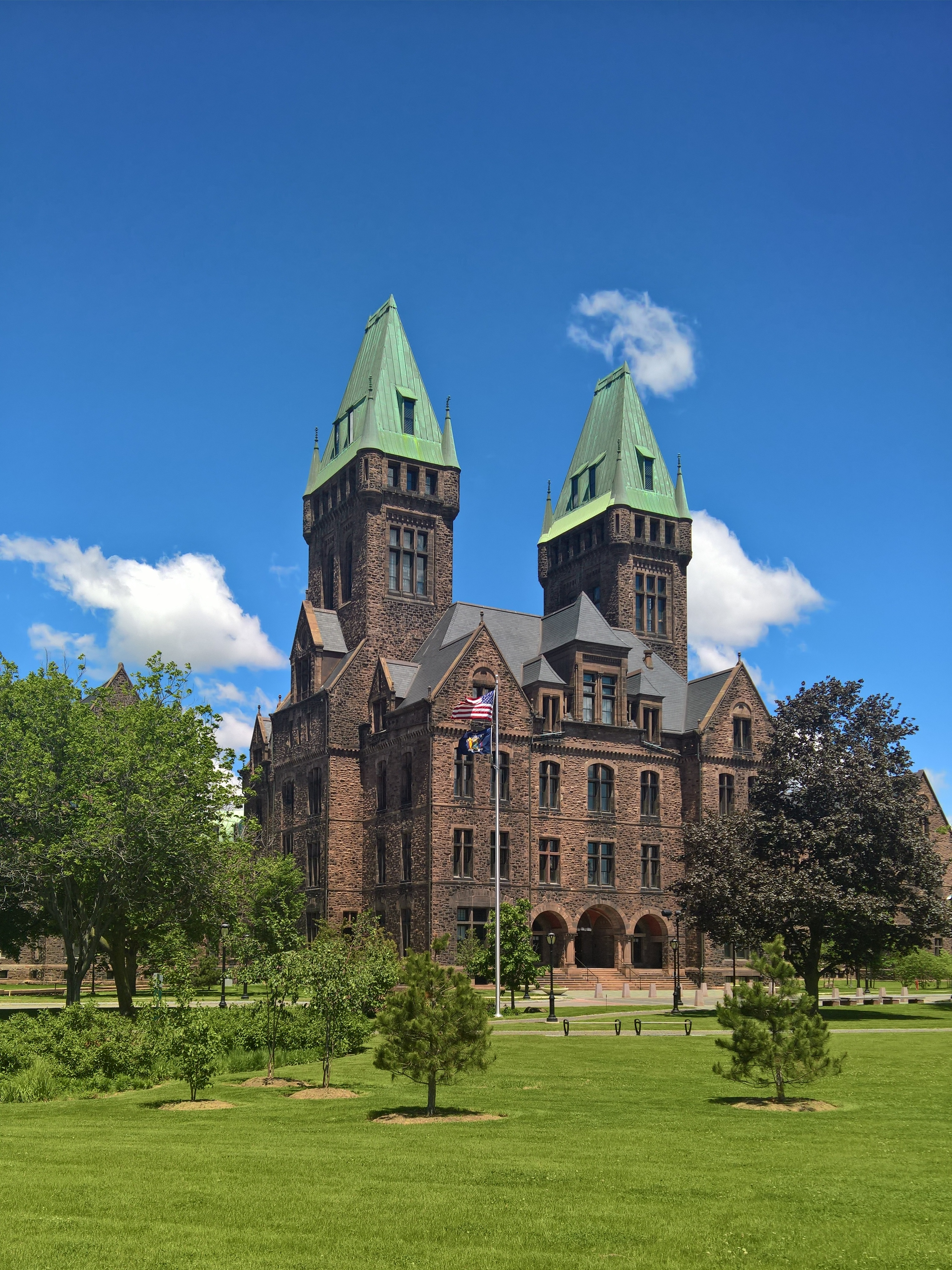 The Administration Building of the former Buffalo State Hospital (Richardson-Olmsted Complex), now repurposed as 88-room luxury boutique hotel, Hotel Henry.